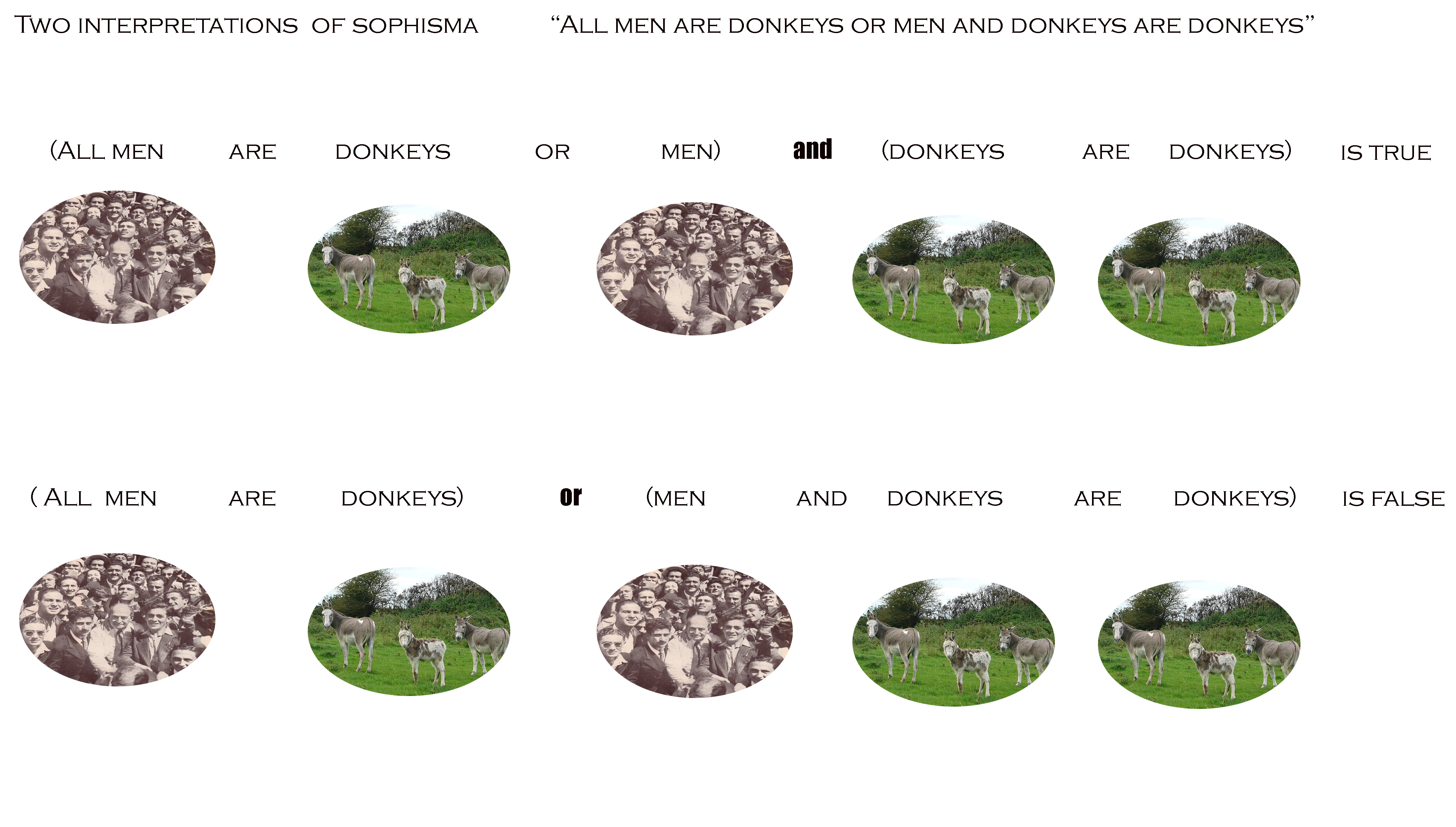 All men are donkeys or men and donkeys are donkeys